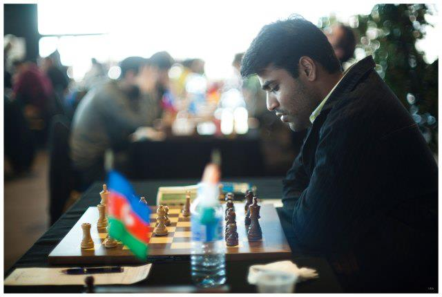 Kore GM Chess Paris